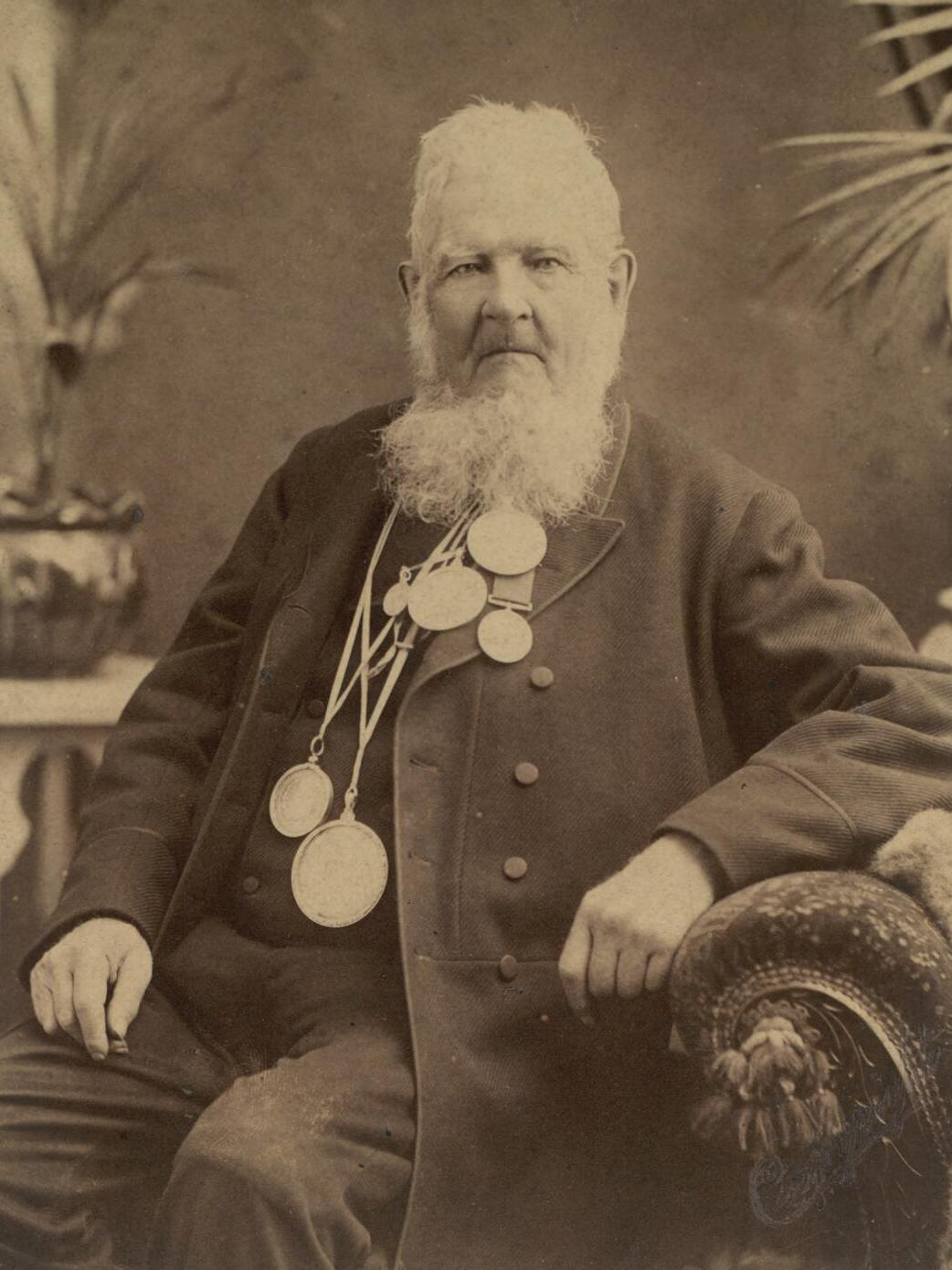 A portrait from the Welsh Portrait Collection at the National Library of Wales. Depicted person: David Griffith – Welsh poet